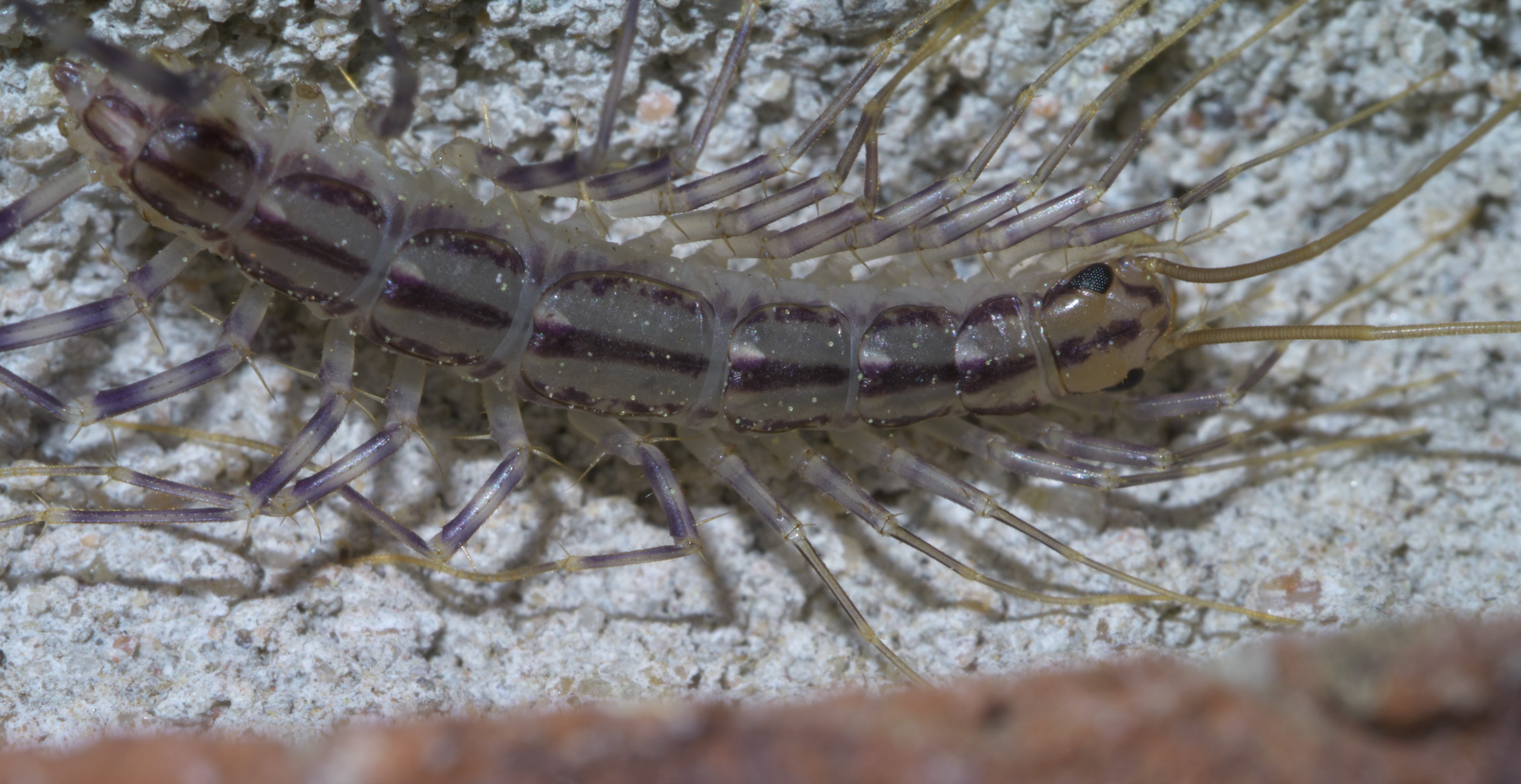 Scutigera coleoptrata, house centipede, Size: about 13 mm, ID Confidence: 94